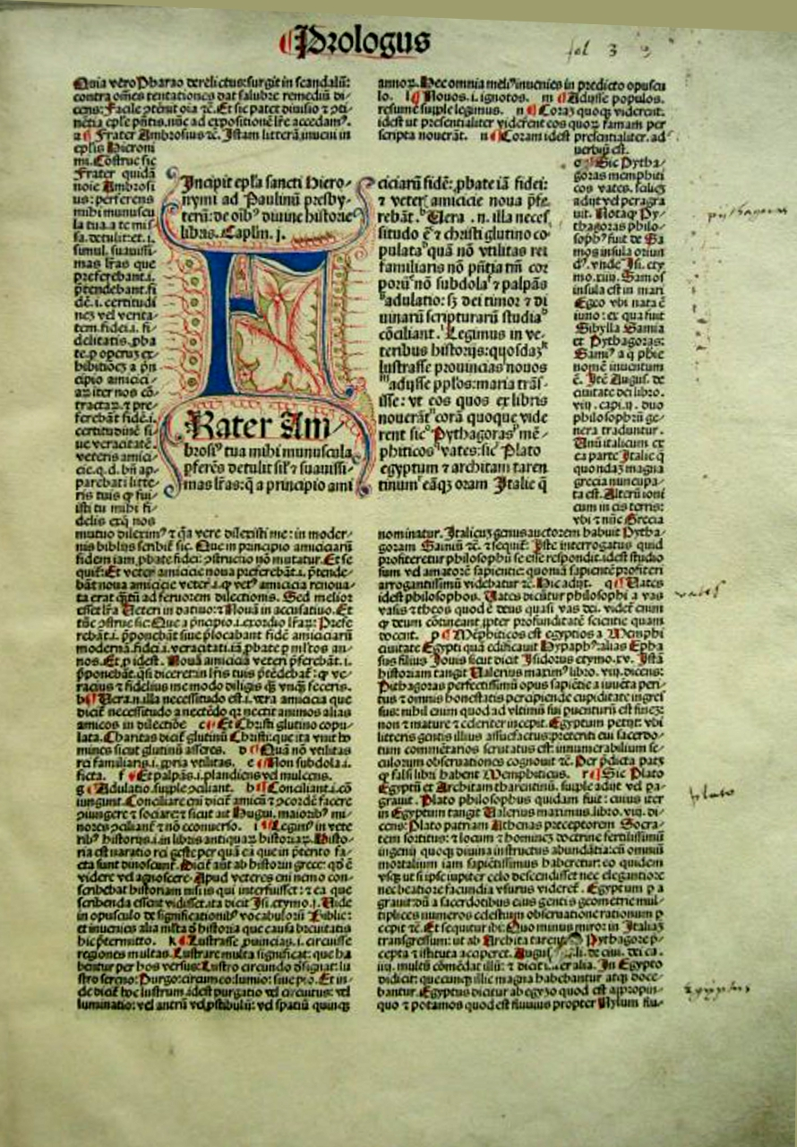 One of pages Nicolaus' Lyranus' comments to Biblia